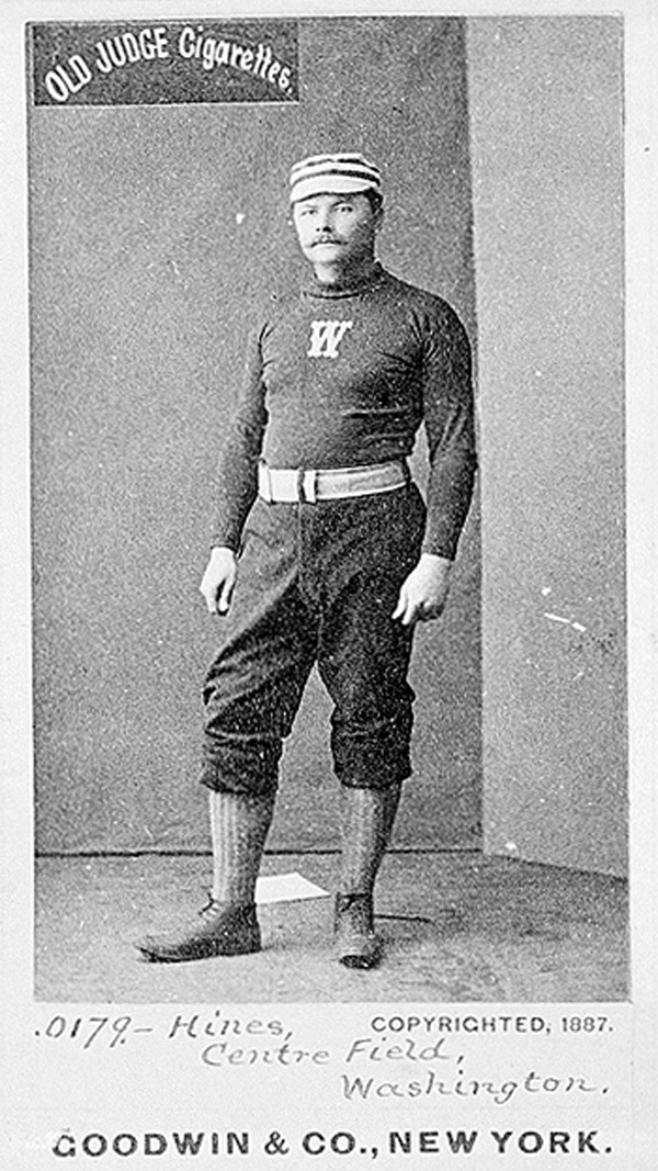 Old Judge Cigarettes card of baseball player Paul Hines